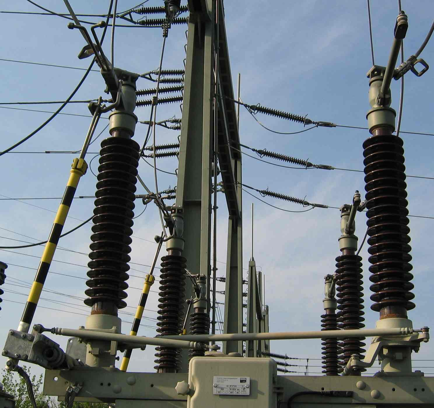 open 110 kV disconnecting switch